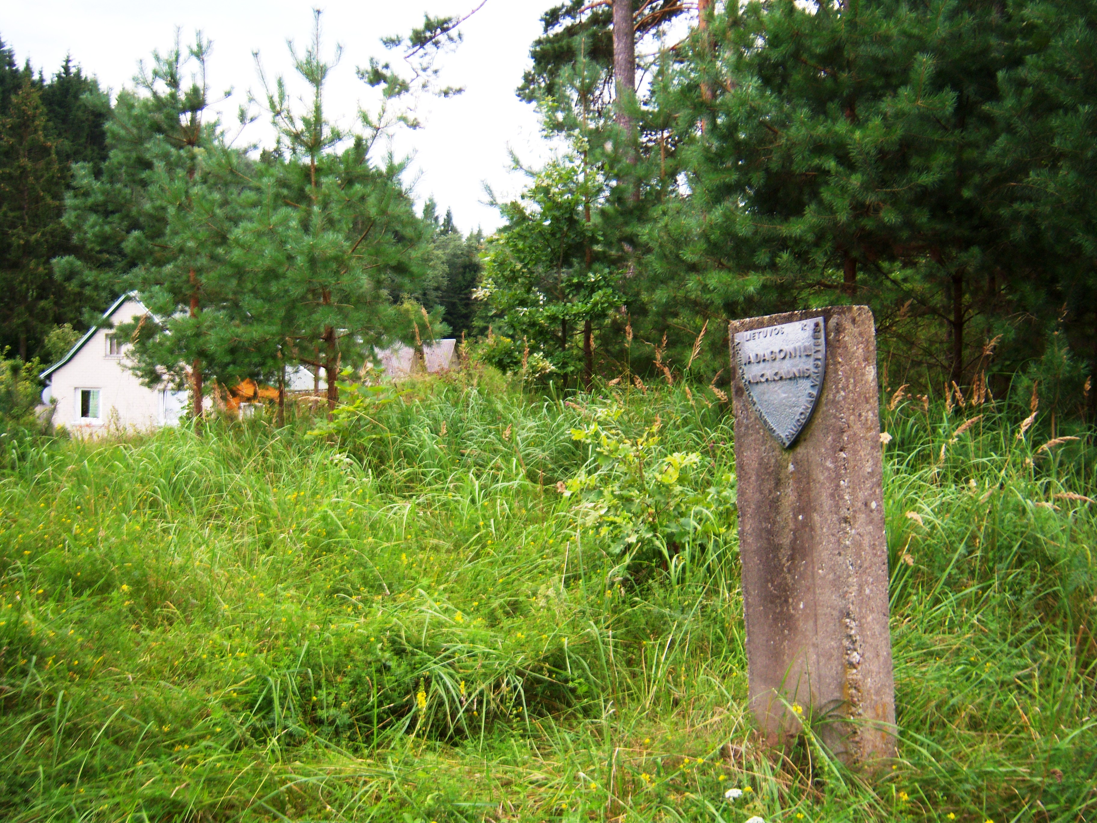 Jadagoniai hillfort, Kaunas district, Lithuania